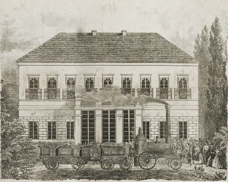 Locomotive model atraction Czech lion, 1841, Prague. Made in Bretfield Co.